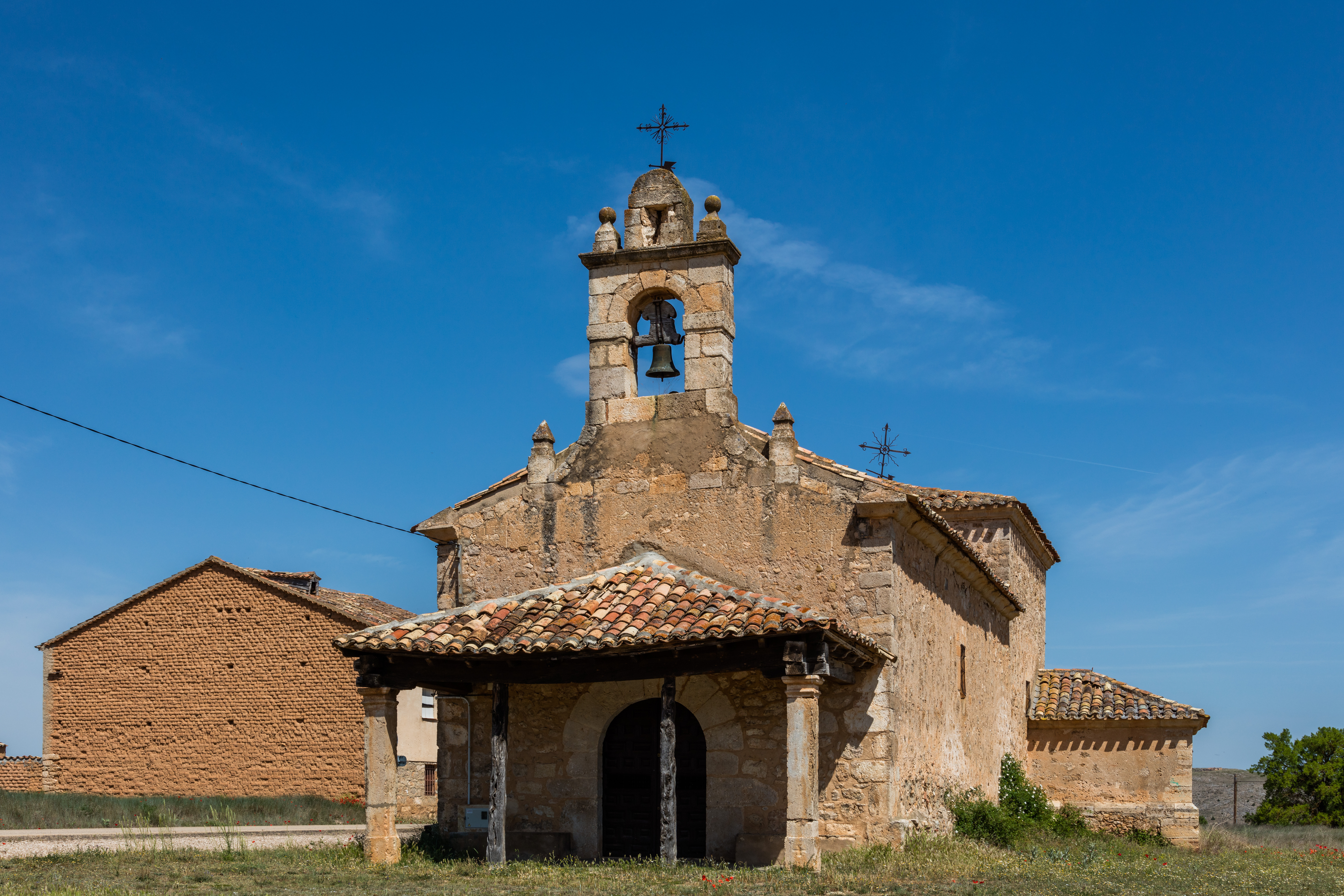 Hermitage of the Lady of the Augustinians, Recuerda, Soria, Spain